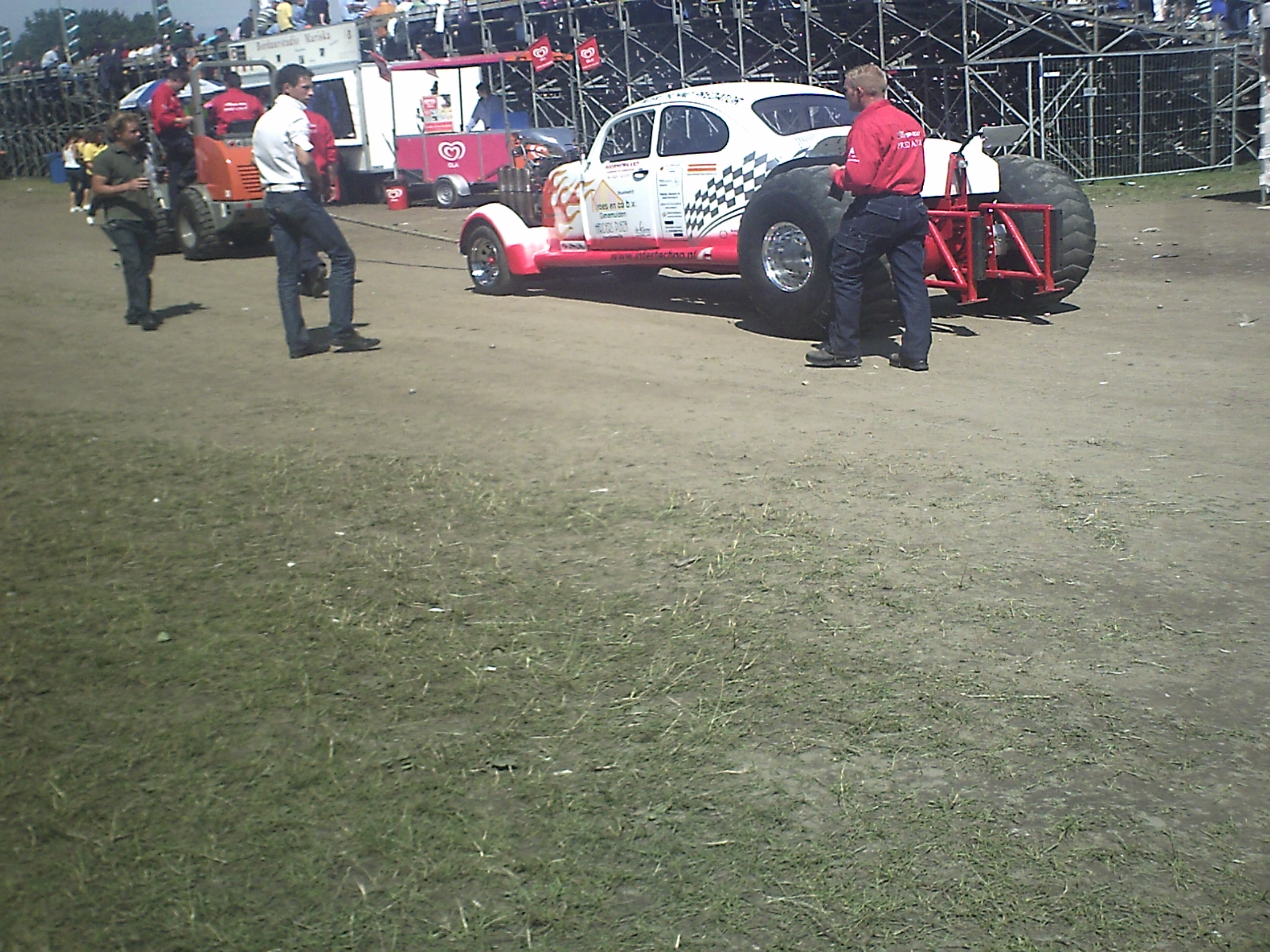 Beach Pull 2009, Putten, The Netherlands